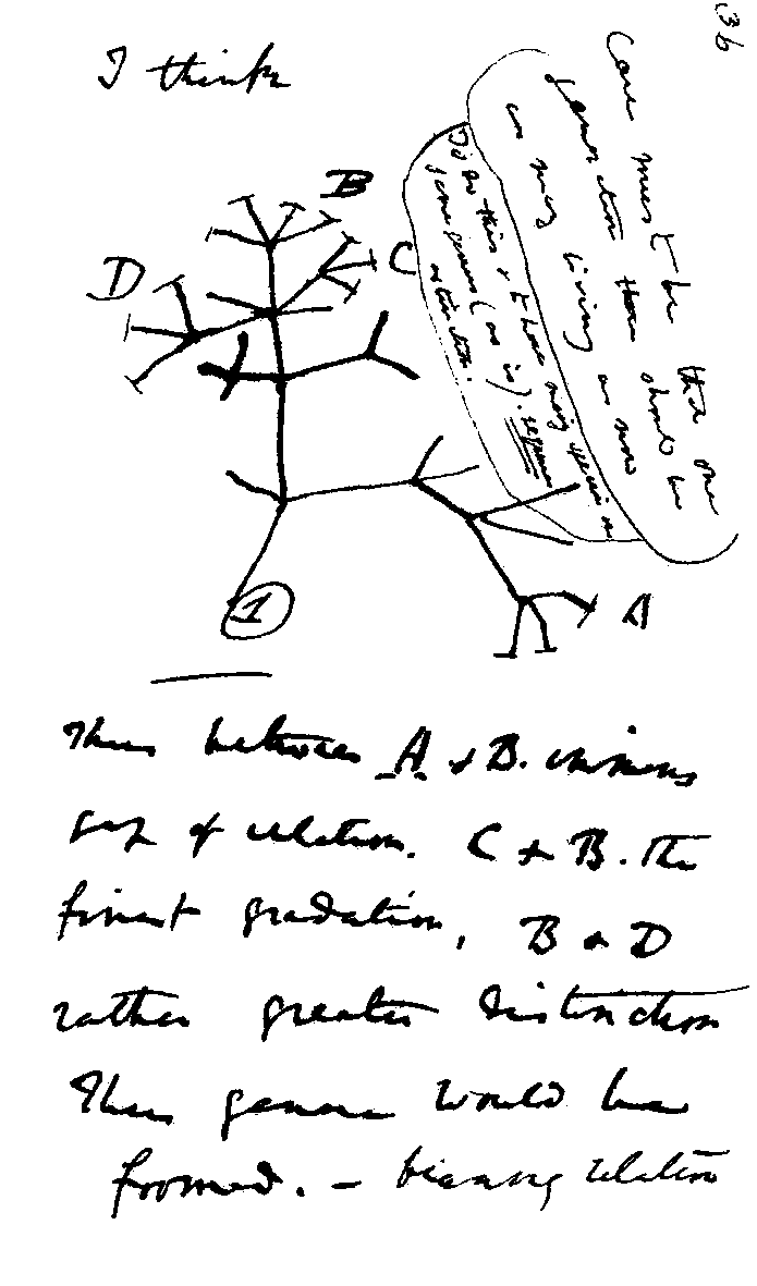 Charles Darwin's 1837 sketch, his first diagram of an evolutionary tree from his First Notebook on Transmutation of Species (1837) on view at the Museum of Natural History in Manhattan. Interpretation of handwriting: "I think case must be that one generation should have as many living as now. To do this and to have as many species in same genus (as is) requires extinction . Thus between A + B the immense gap of relation. C + B the finest gradation. B+D rather greater distinction. Thus genera would be formed. Bearing relation" (next page begins) "to ancient types with several extinct forms"